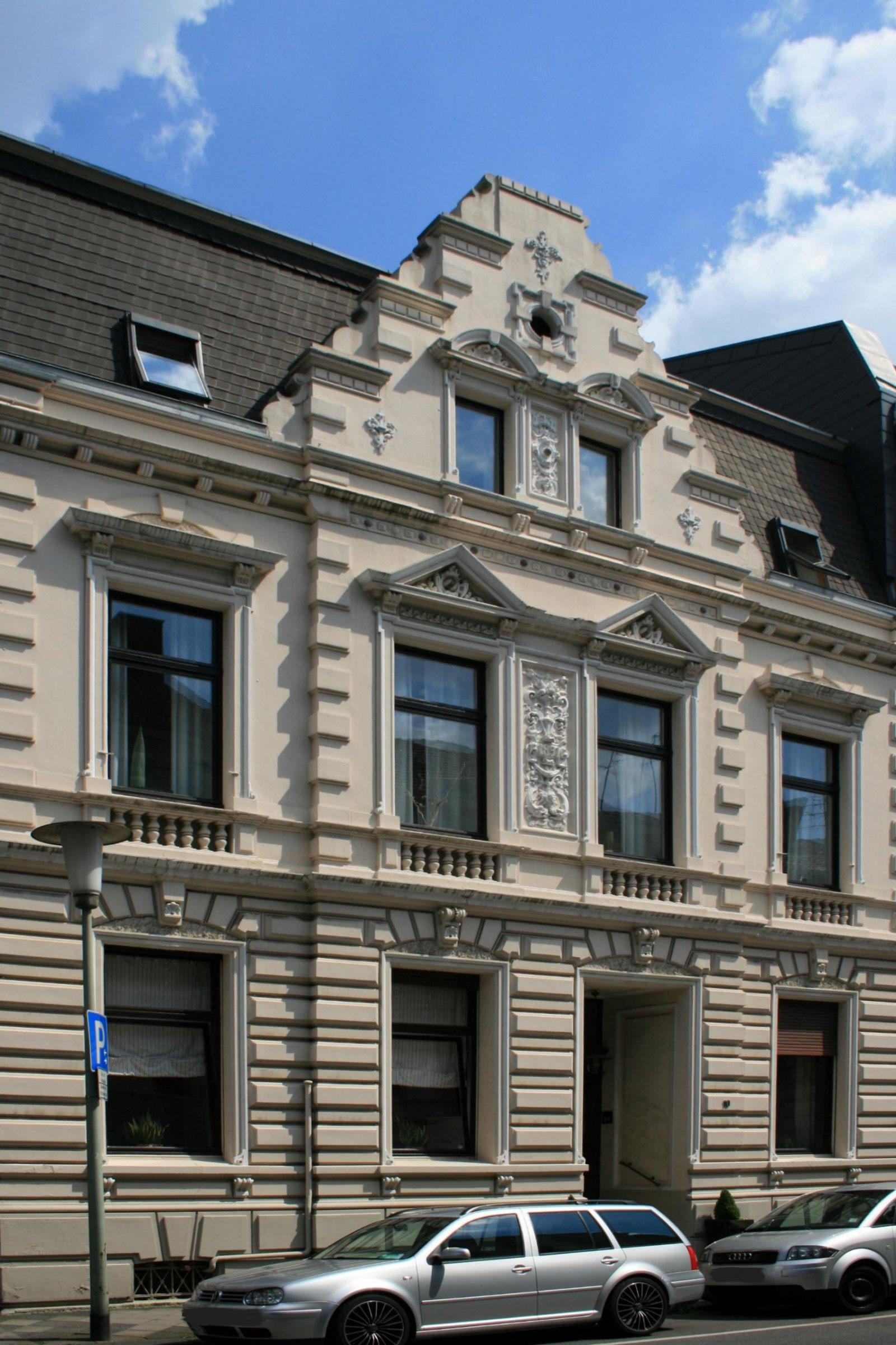 Cultural heritage monument No. H 018 in Mönchengladbach